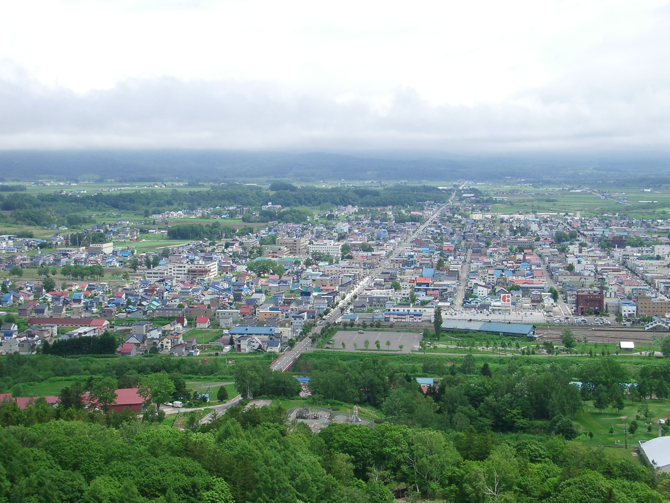 A view of the town of Kutchan, Hokkaidō, Japan. The photo is taken from the ski jump at the Asahigaoka Ski Ground.